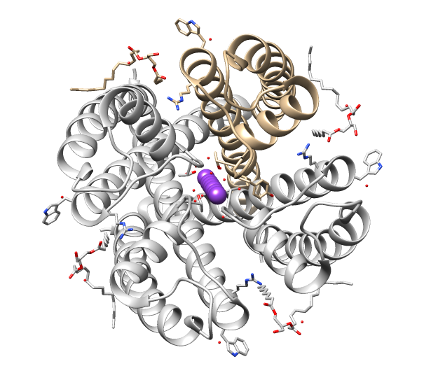 Selectivity filter allowing only potassium ions through the potassium channel (PBD: 1K4C).